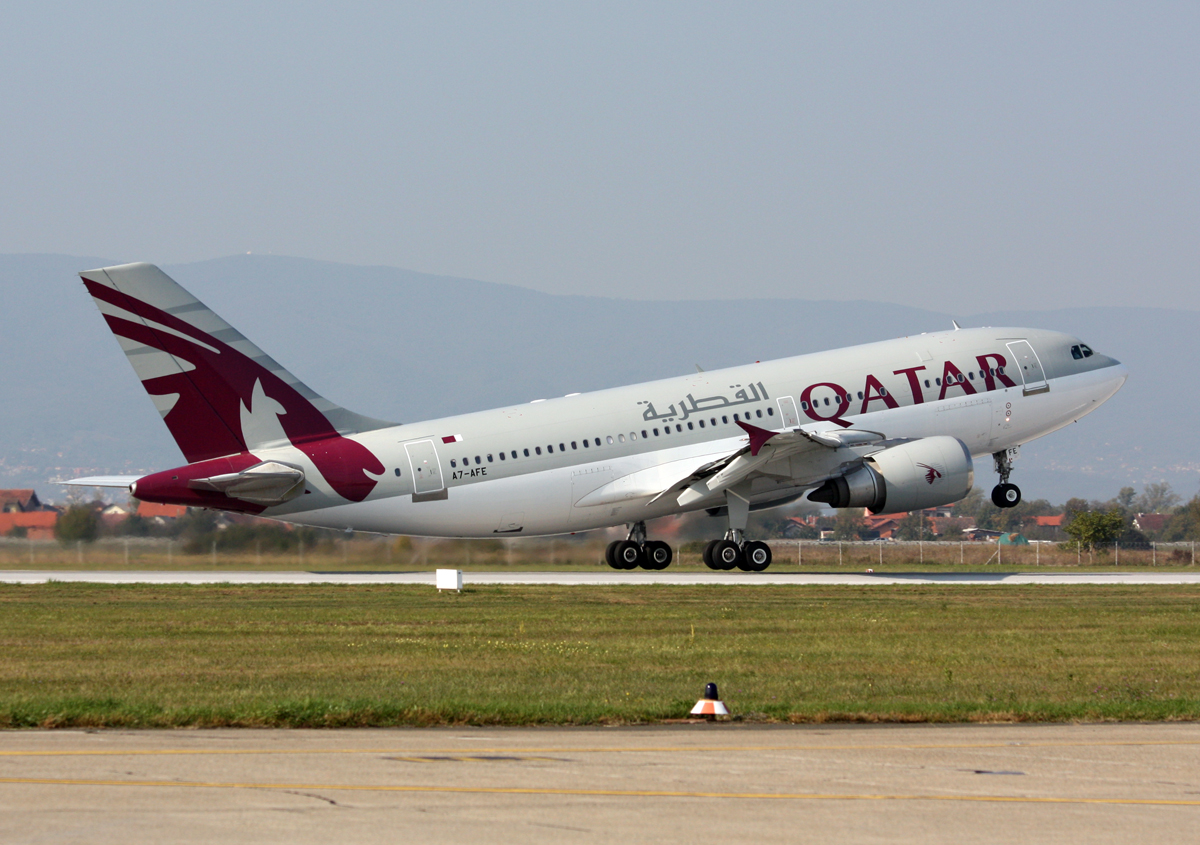 Qatar Amiri flight take of from Zagreb airport.